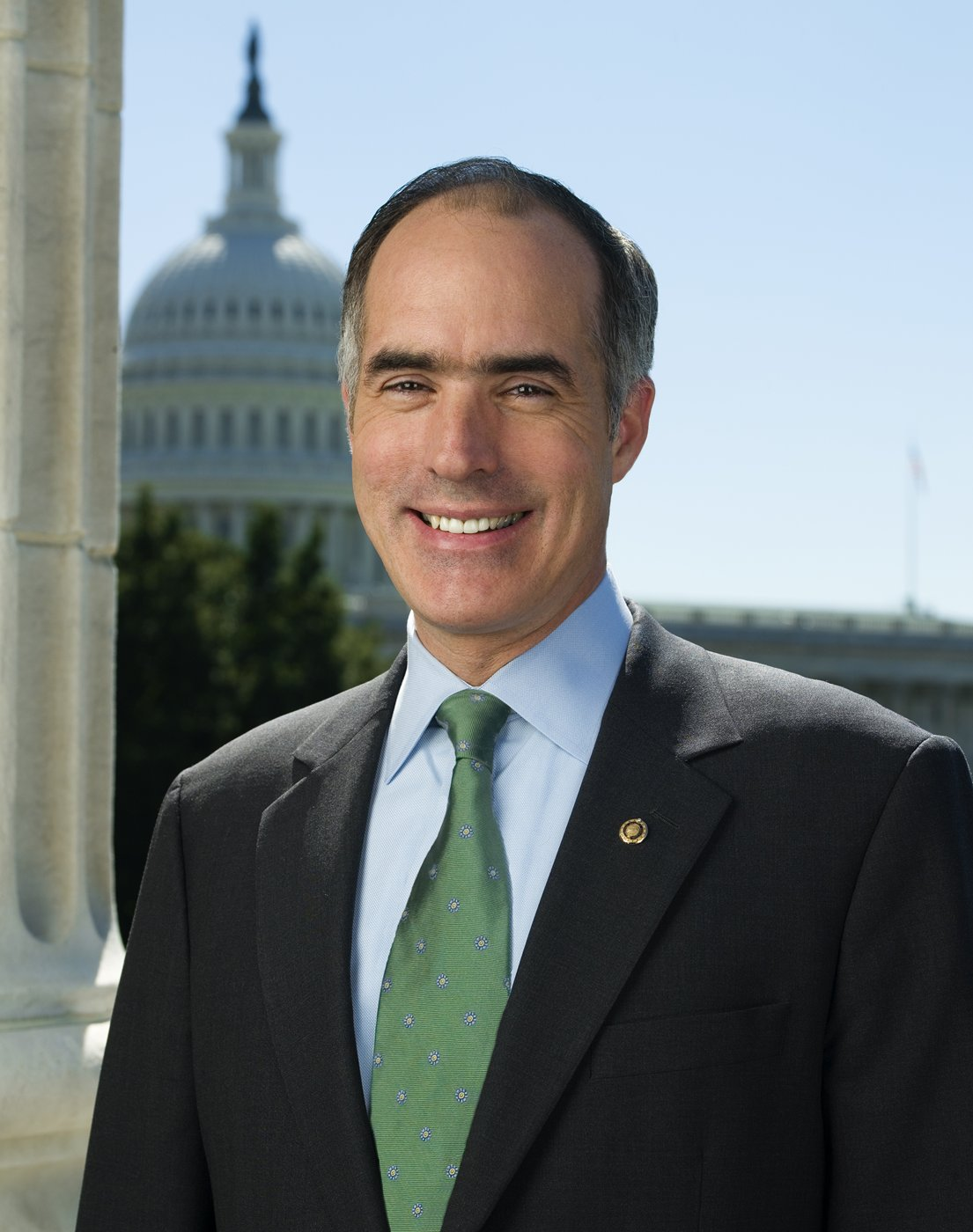 Official photo of Senator Bob Casey (D-PA).